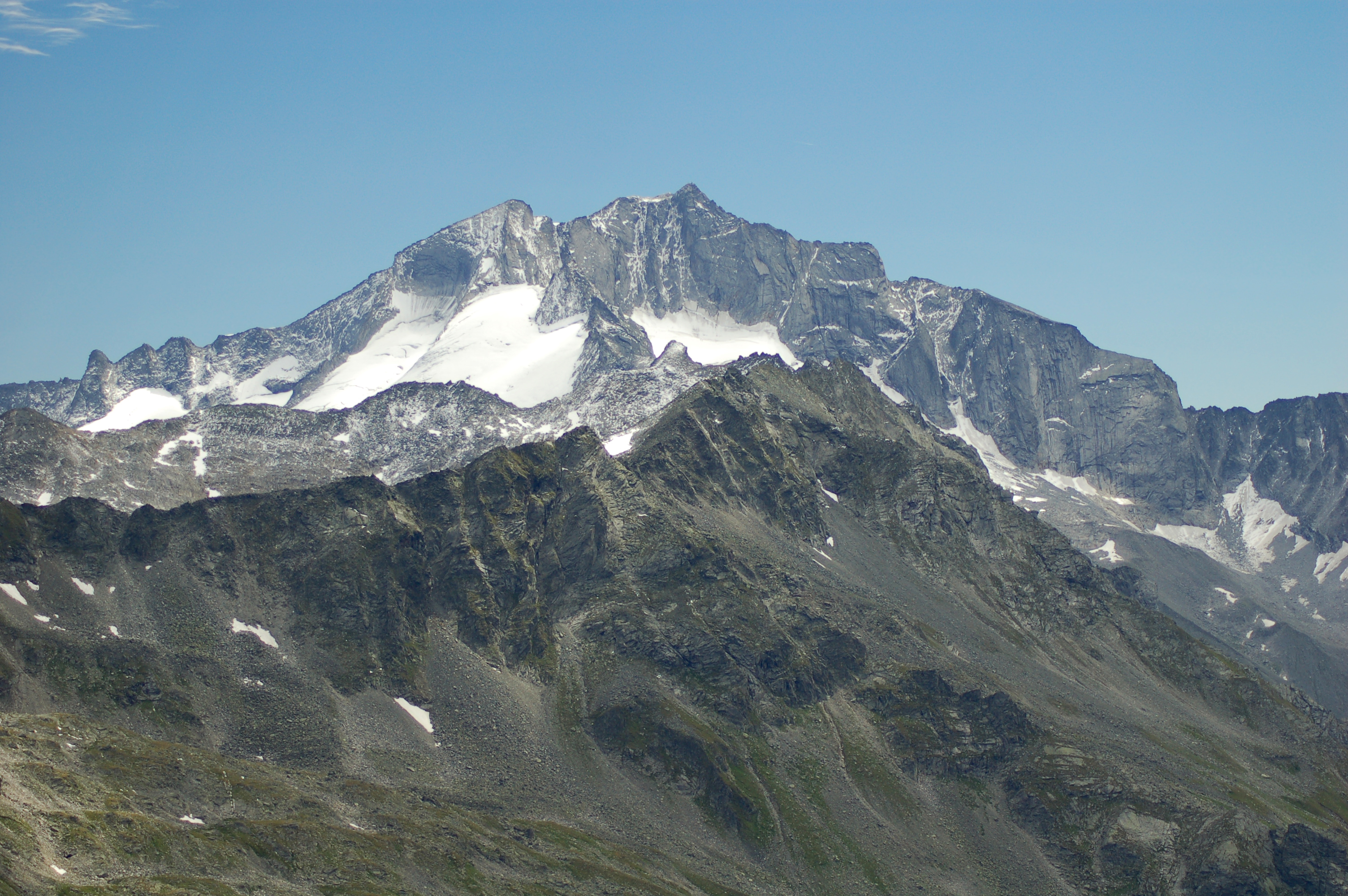 Großelendkopf (3317m) and Hochalmspitze (3360m) from alpine hut Hannoverhaus, Ankogel Group, Mallnitz, Carinthia, Austria